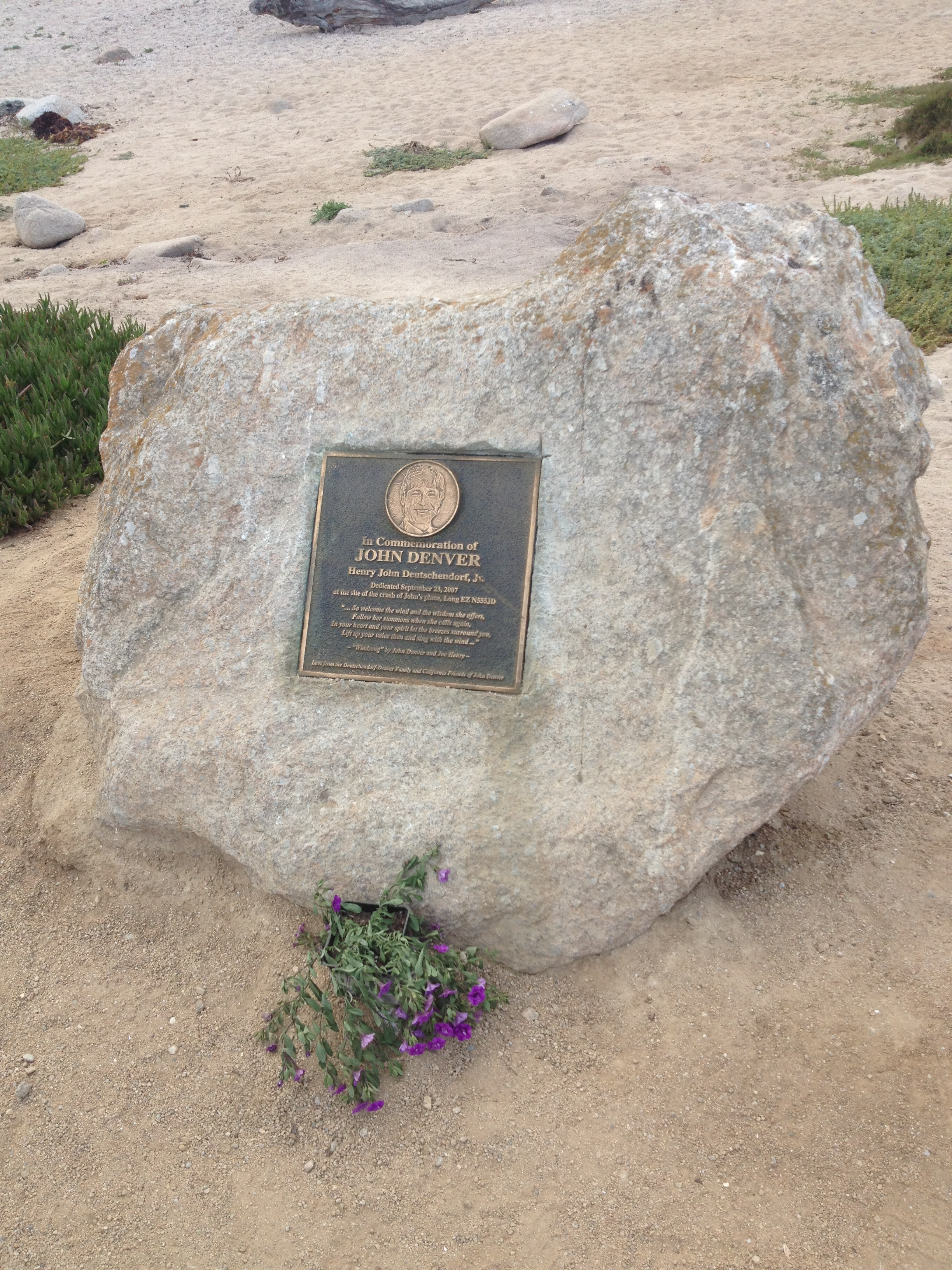 This is a picture of a plaque marking the place where John Denver's plane crashed in on October 22, 1997.